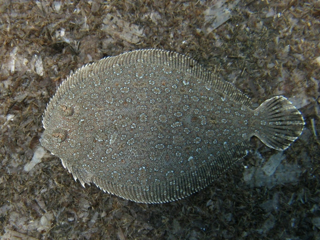 Bothus podas photographed in Corse.